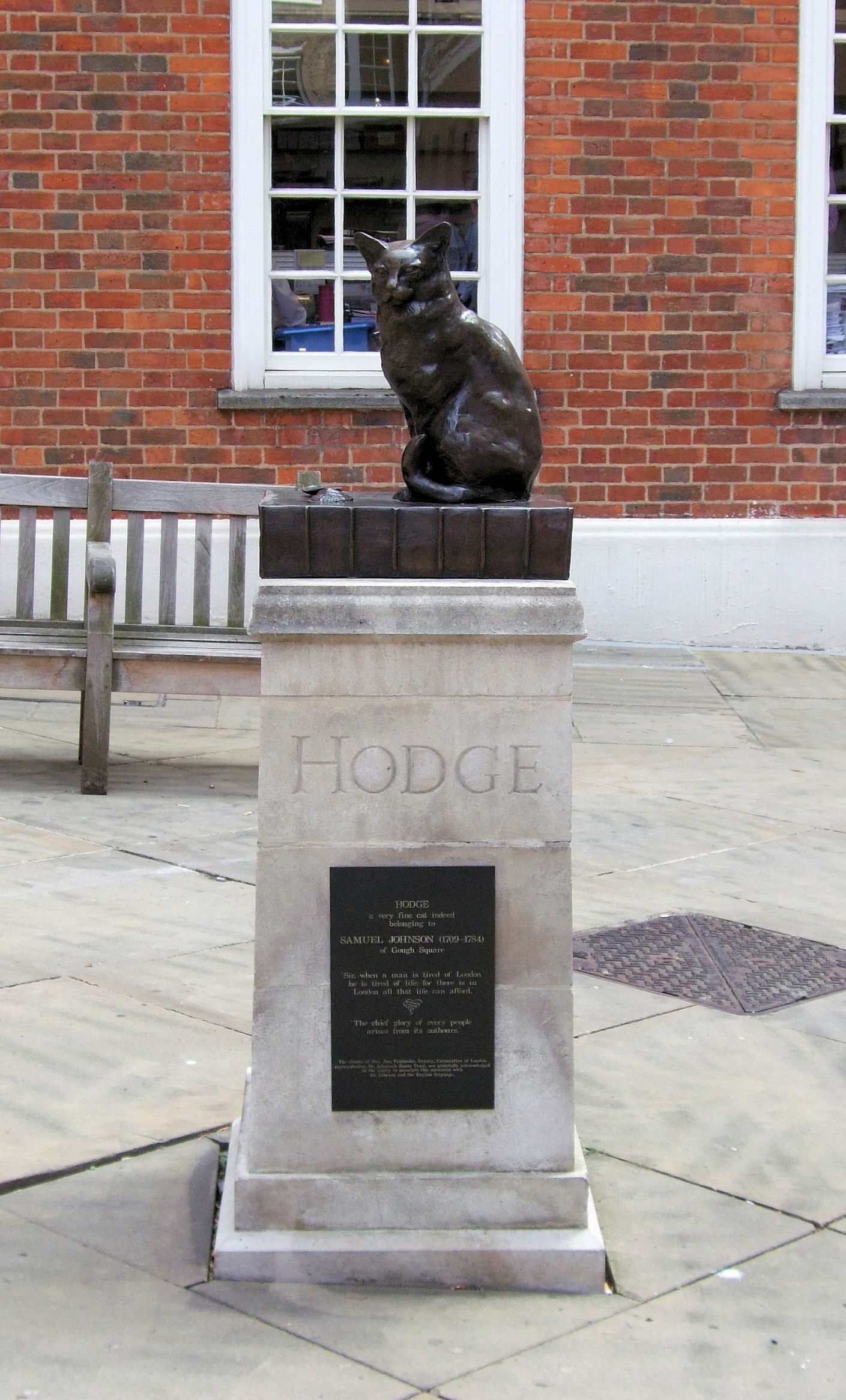 Statue of Hodge in the courtyard outside Dr. Johnson's House, 17 Gough Square, London. Hodge was one of Samuel Johnson's cats, immortalized in a characteristically whimsical passage in James Boswell's Life of Johnson.